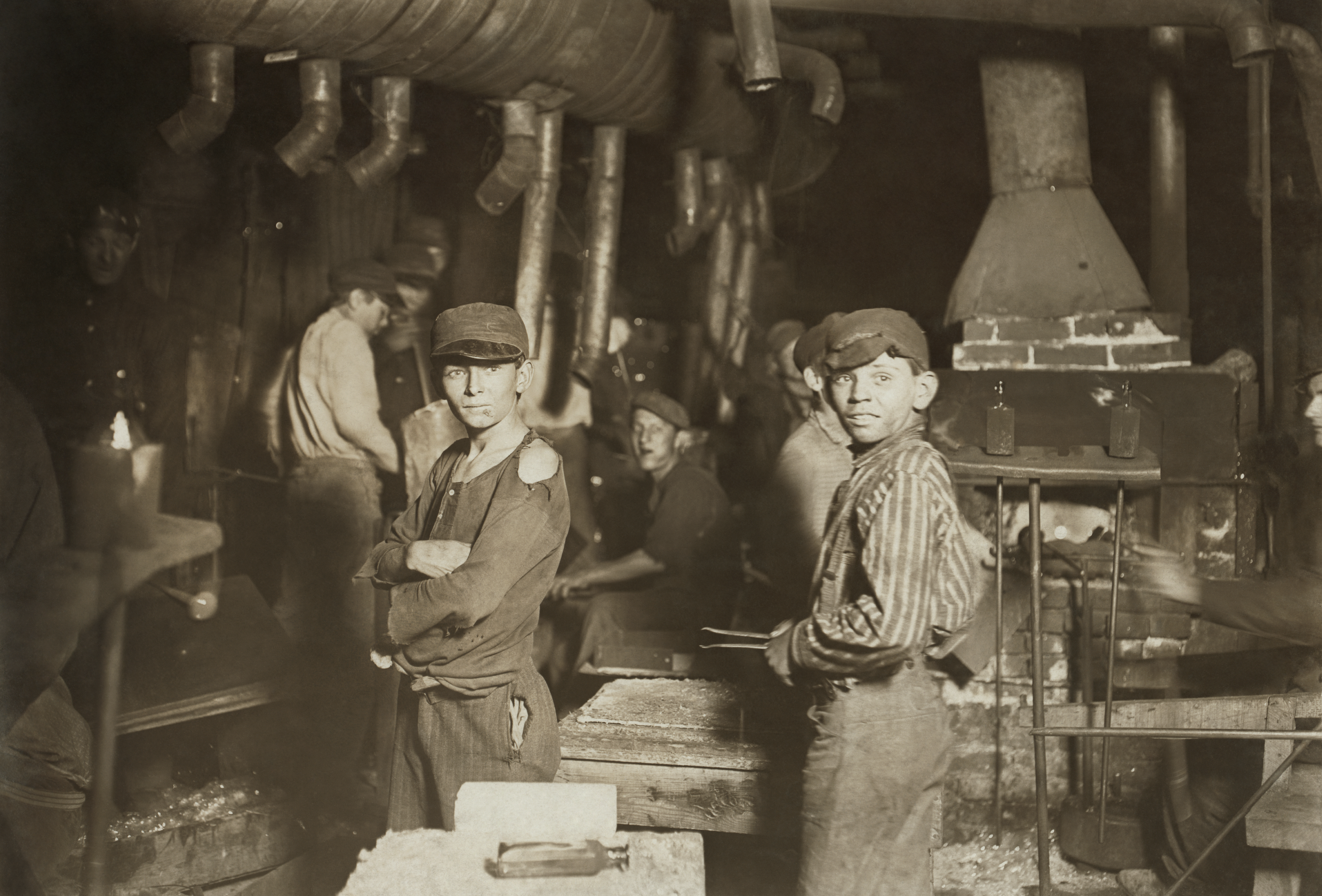 "Glassworks. Midnight. Location: Indiana." From a series of photographs of child labor at glass and bottle factories in the United States by Lewis W. Hine, for the National Child Labor Committee, New York.